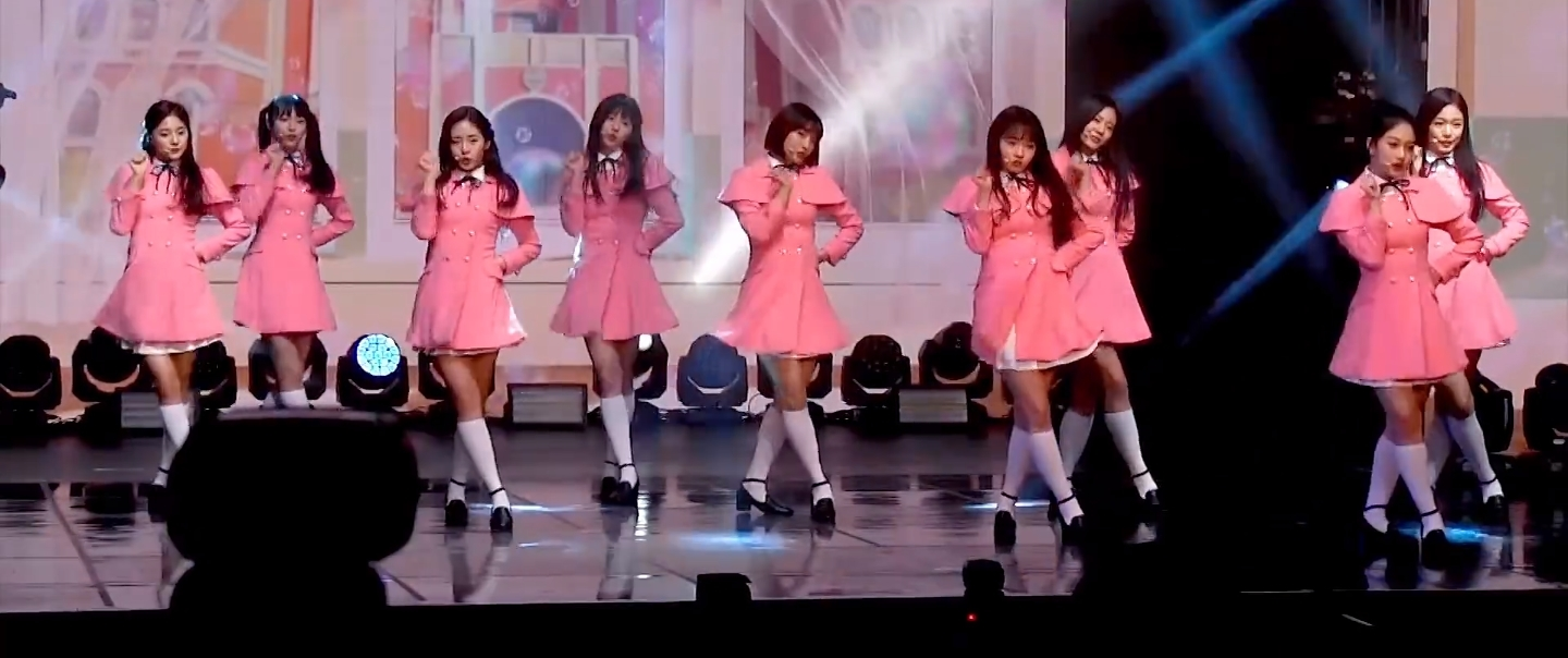 fromis_9 debut stage, performing "To. Heart"